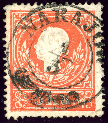 Austrian KK stamp issued in 1858 type I - cancelled NARAJOW (Narayiv), Galicia, Ukraine